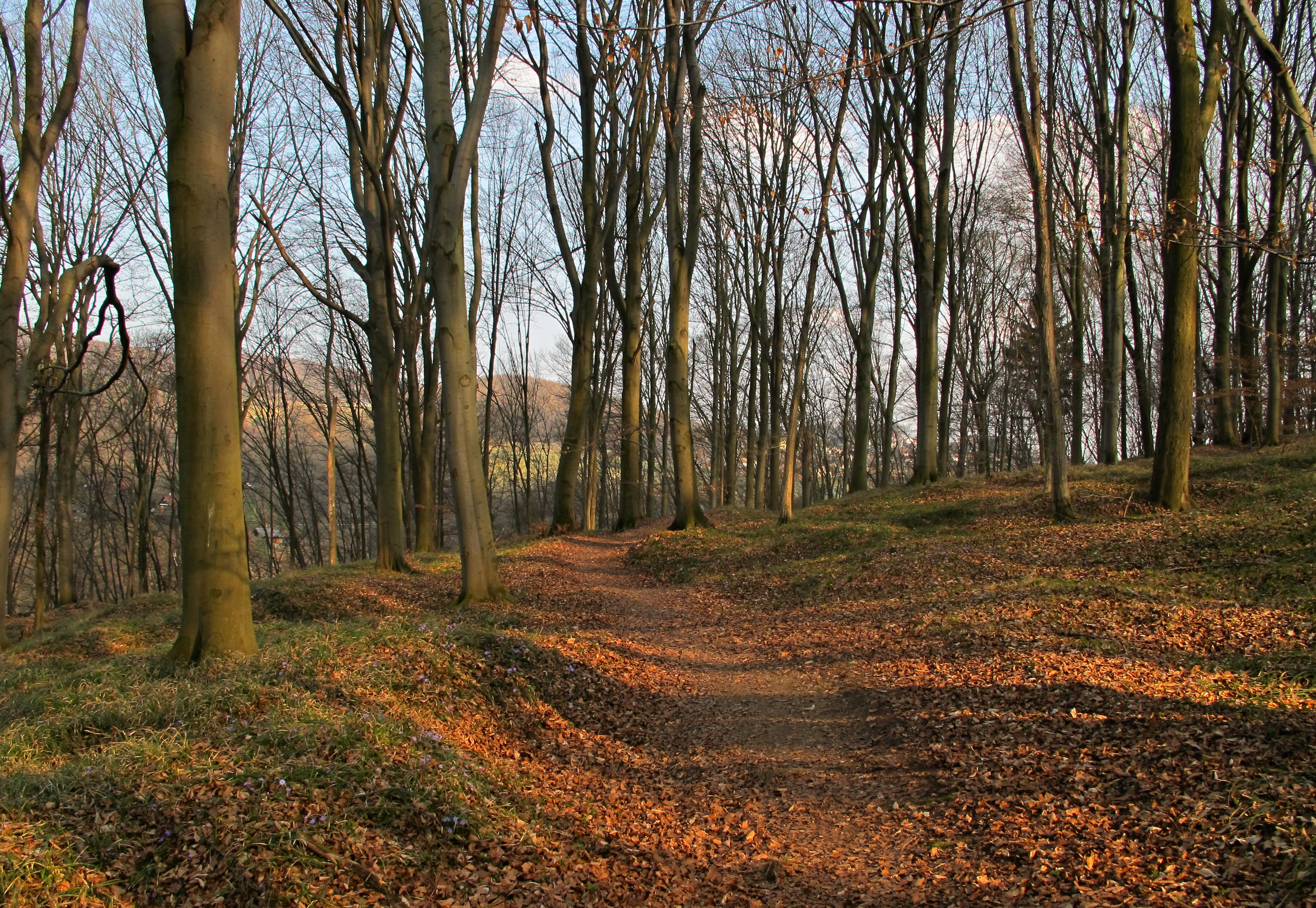 National natural monument Medník near Hradištko pod Medníkem, Prague-West District (Czech Republic)